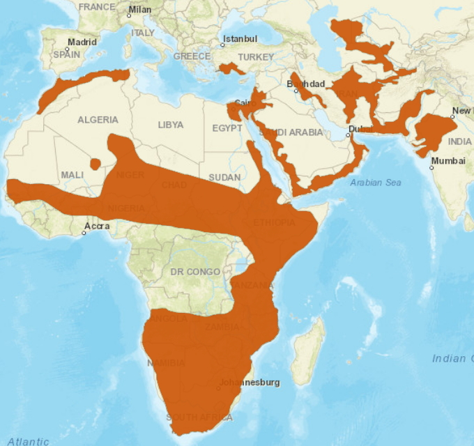 Distribution of Caracal